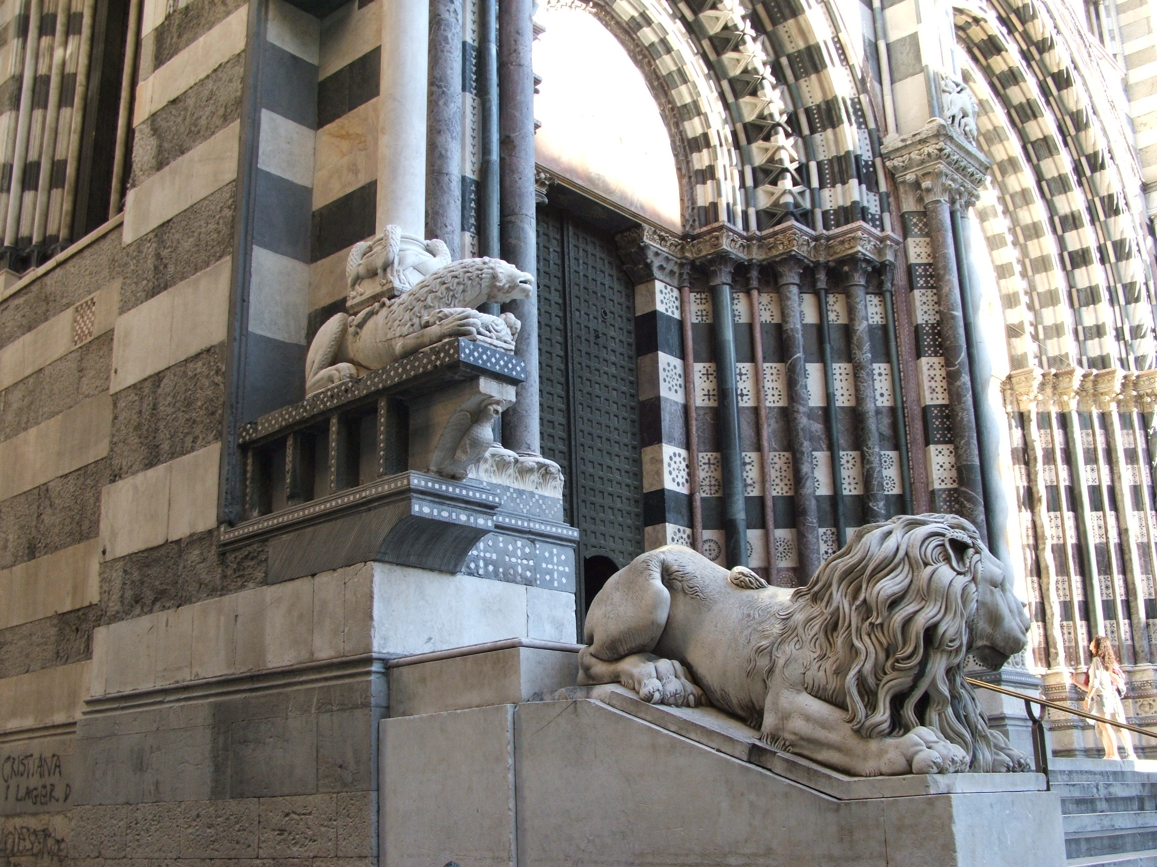 A lion embellishing the stairs of the Cathdreal in Genoa (Italy).